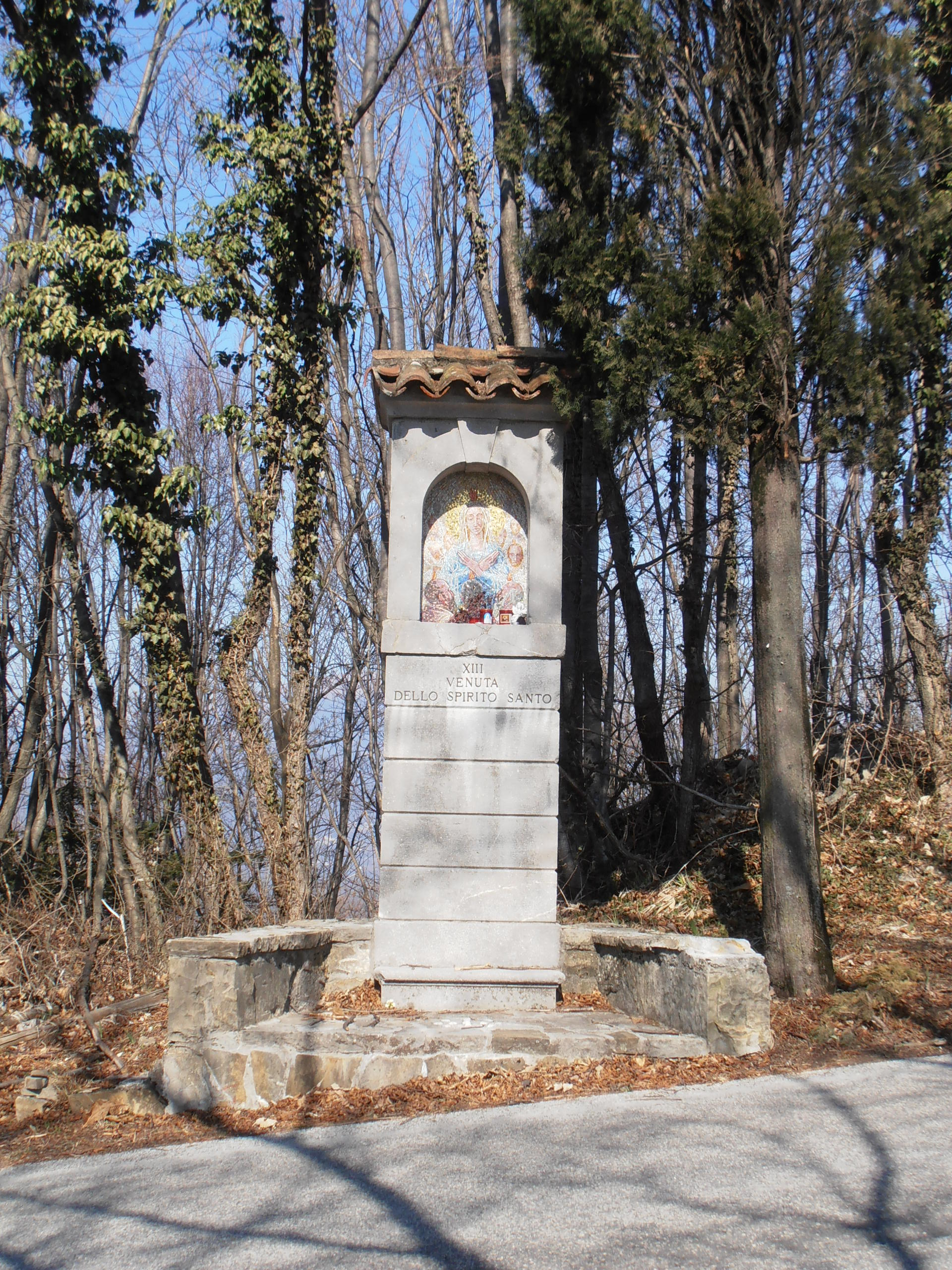 Castelmonte Sanctuary - Cividale - Italy